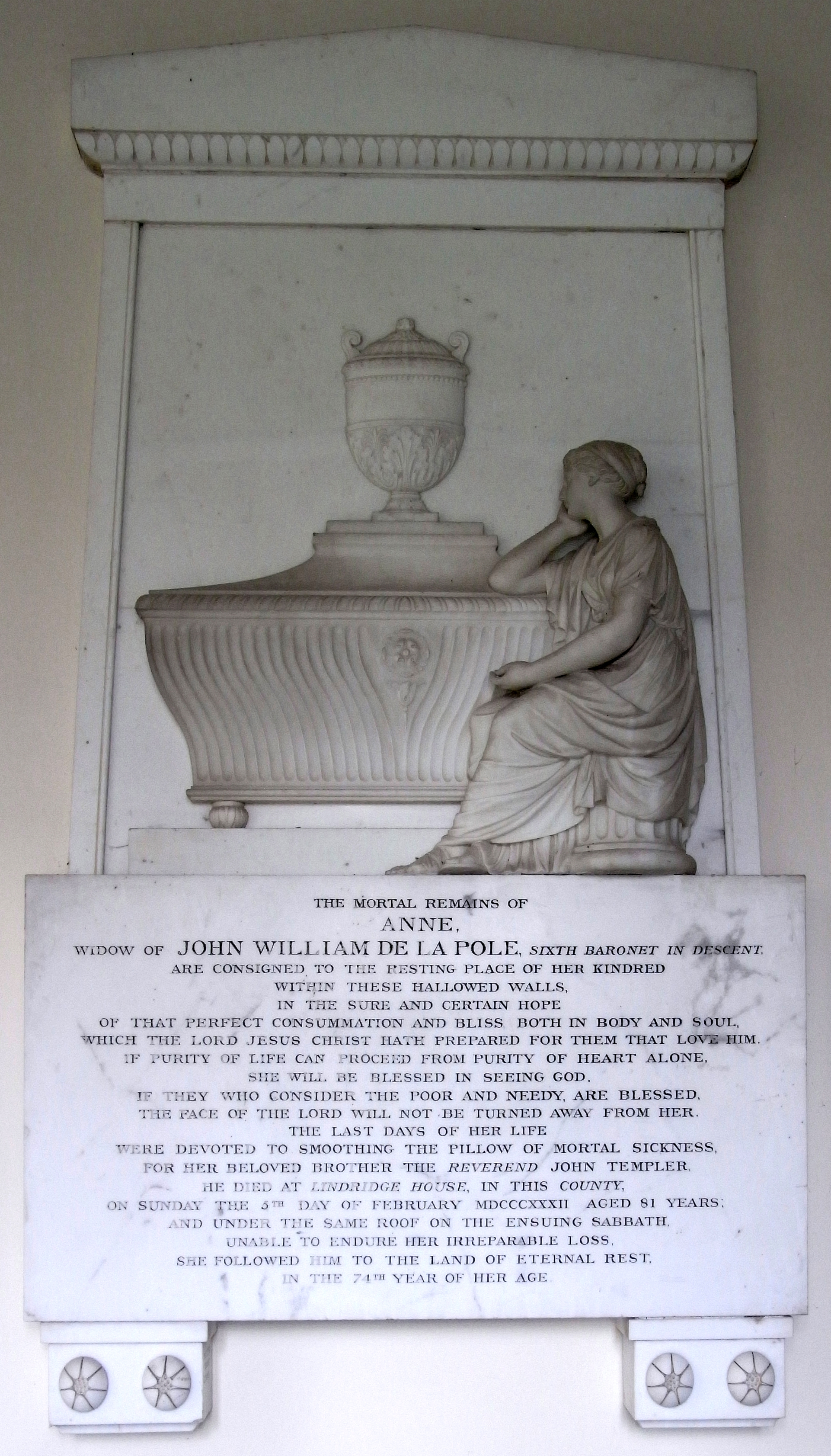 1832 mural monument to Lady Anne Pole (nee Templer) (1758-1832), wife of Sir John de la Pole, 6th Baronet (1757-1799) signed: "P. Rouw sculp. London" (Peter Rouw (1771-1852)), west wall of south transept of St Michael's Church, Shute, Devon. Inscription: The mortal remains of Anne, widow of John William de la Pole, sixth baronet in descent, are consigned to the resting place of her kindred within these hallowed walls in the sure and certain hope of that perfect consummation and bliss both in body and soul which the Lord Jesus Christ hath prepared for them that love him. If purity of life can proceed from purity of heart alone she will be blessed in seeing God. If they who consider the poor and needy are blessed, the face of the Lord will not be turned away from her. The last days of her life were devoted to smoothing the pillow of mortal sickness for her beloved brother the Reverend John Templer. He died at Lindridge House in this county on Sunday the 5th day of February MDCCCXXXII aged 81 years and under the same roof on the ensuing Sabbath unable to endure her irreparable loss she followed him to the land of eternal rest in the 74th year of her age